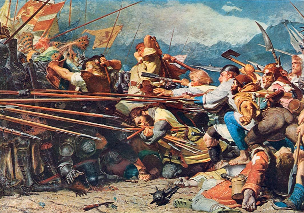 Death of Arnold von Winkelried during the battle of Sempach 1386label QS:Len,"Death of Arnold von Winkelried during the battle of Sempach 1386" label QS:Lde,"Winkelrieds Tod bei Sempach"